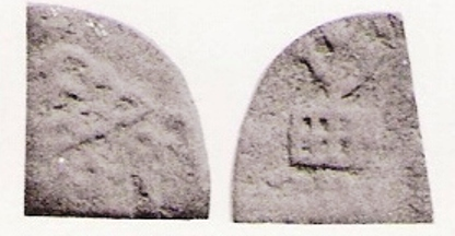 Coin of Agathocles of Bactria. Obv: Stupa, Kharoshthi legend: AKATHUKREYASA "Agathocles". Rev: Tree in railing, Kharoshthi legend: HITAJASAME "Good-fame-possessing" (lit. meaning of "Agathocles").